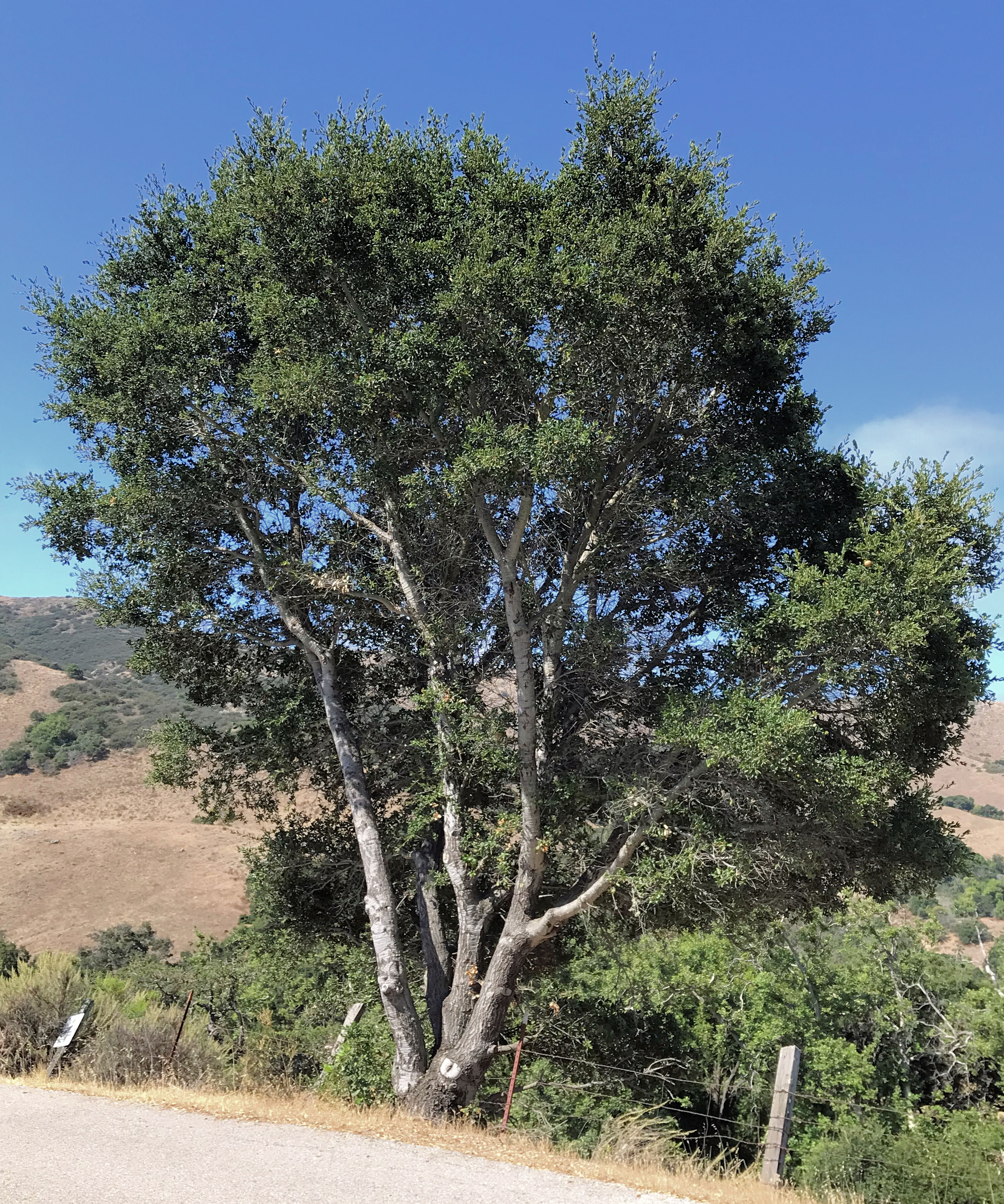 Quercus agrifolia by a roadside in San Luis Obispo County, California, July 2020